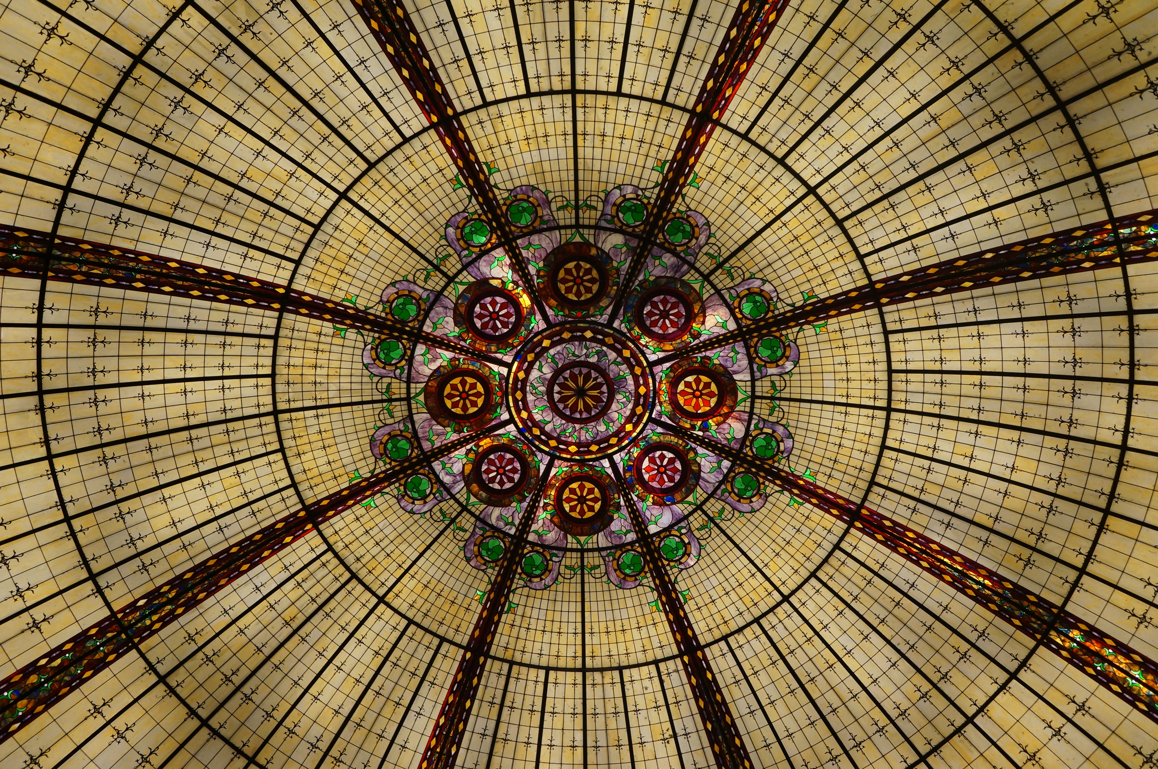 Coupole of Paris Las Vegas Hotel and Casino in Las Vegas, Nevada.- USA